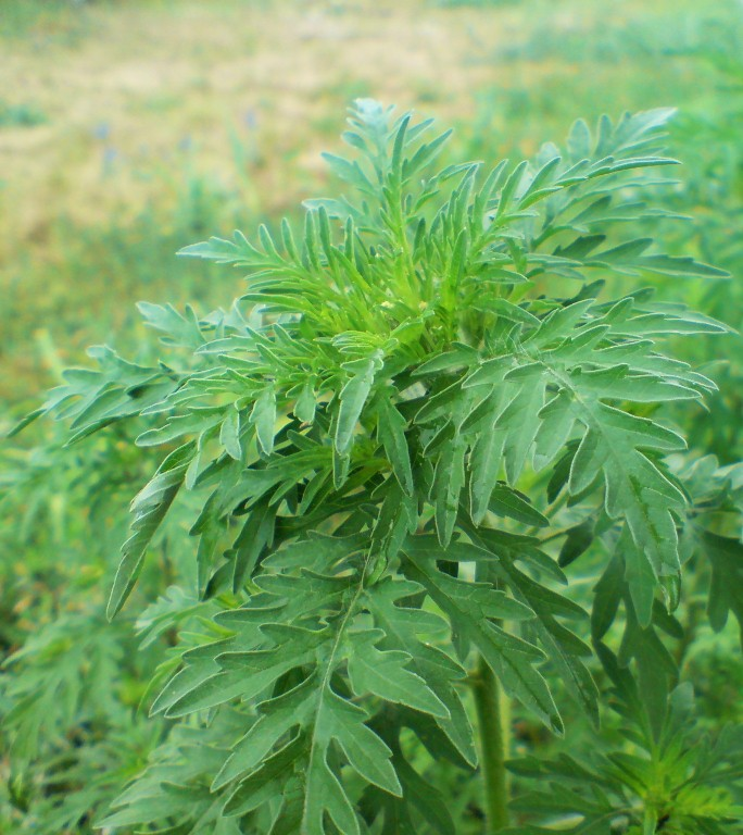 Common Ragweed - Captured in Timisoara, Romania